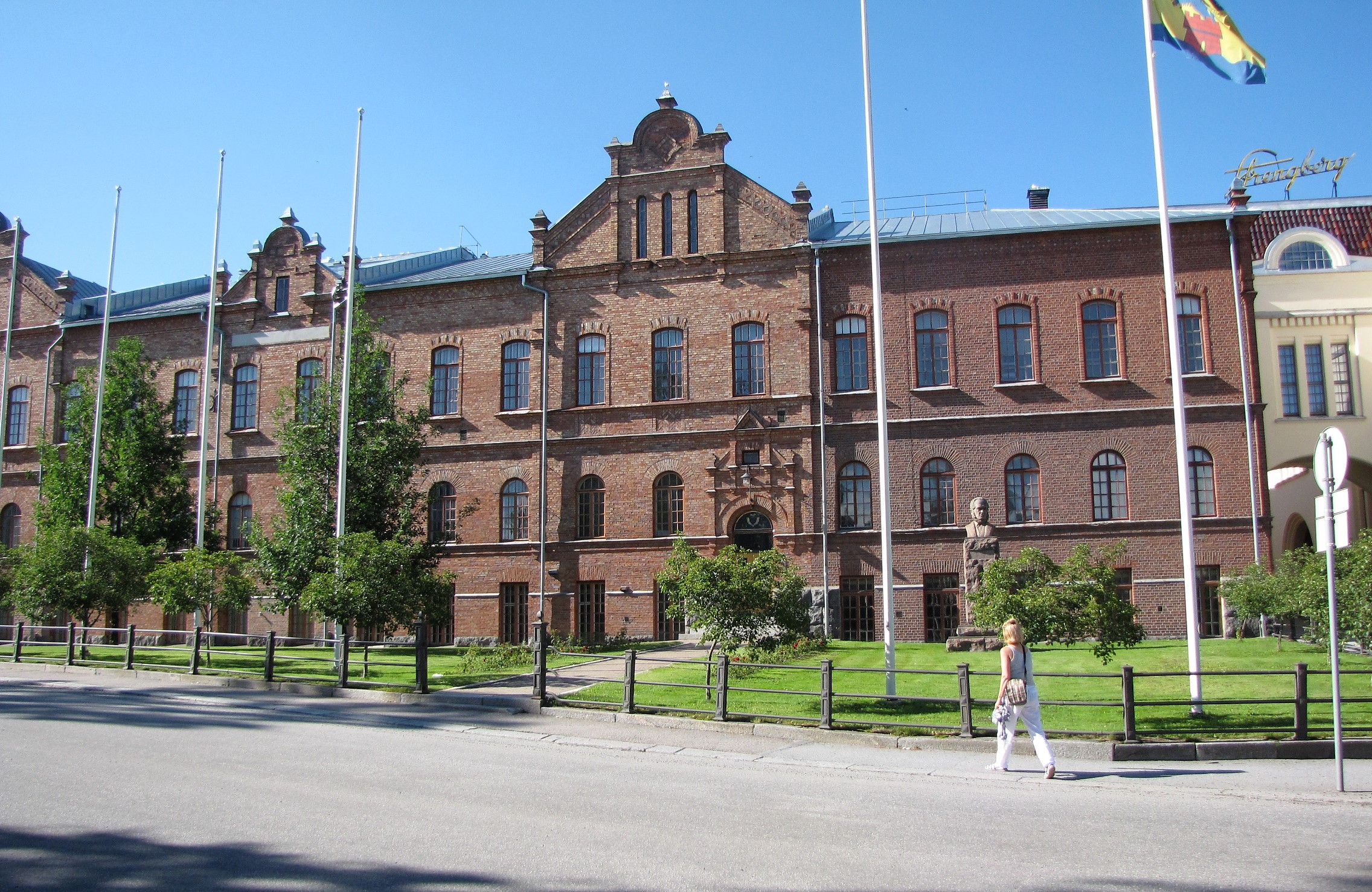 Strengberg's old tobacco factory in Jakobstad, Finland. This is the older red-brick part of the factory, designed by architects Grahn, Hedman & Wasastjerna and completed in 1898.